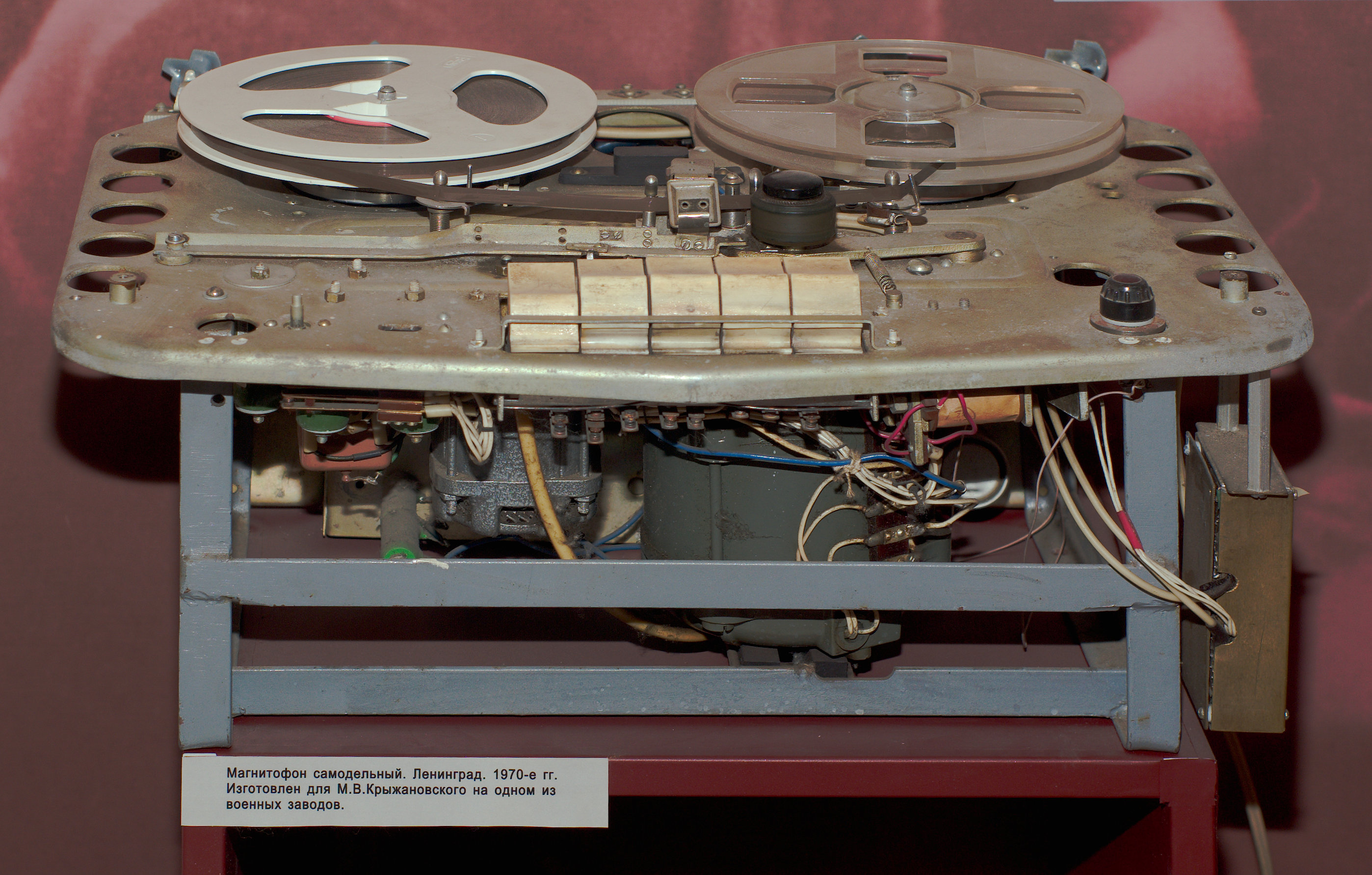 Tape recorder «Tembr» MAG-59M (1964) without casing. (Incorrectly attributed as «self-made».)